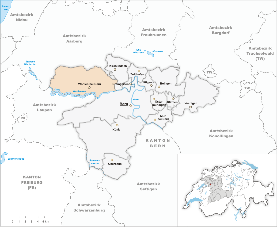 Municipality Wohlen bei Bern